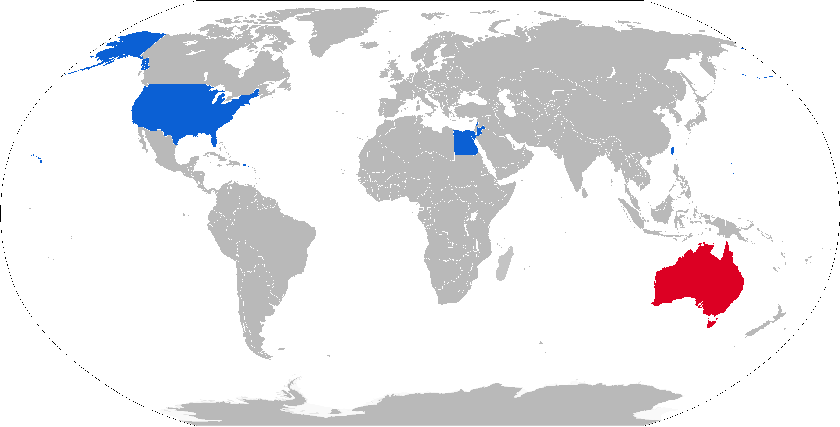 Map with M712 operators in blue with former operators in red